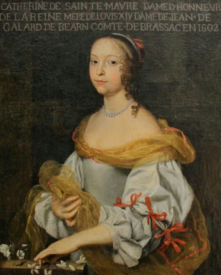 Portrait of Catherine de Brassac.